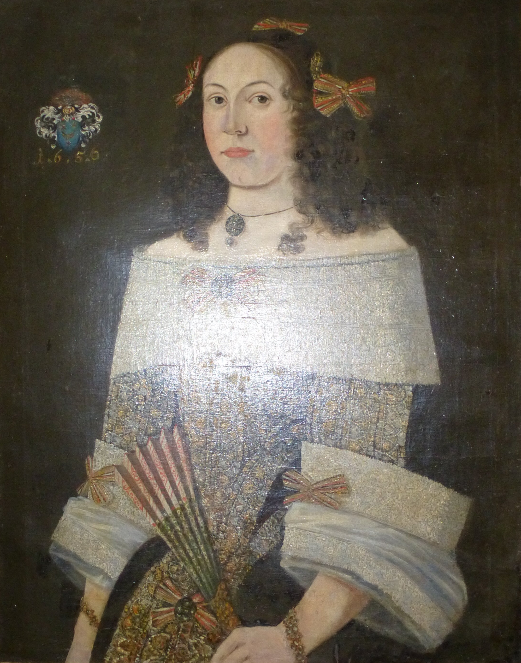 Lillian Hamilton (1634-1658) portrait